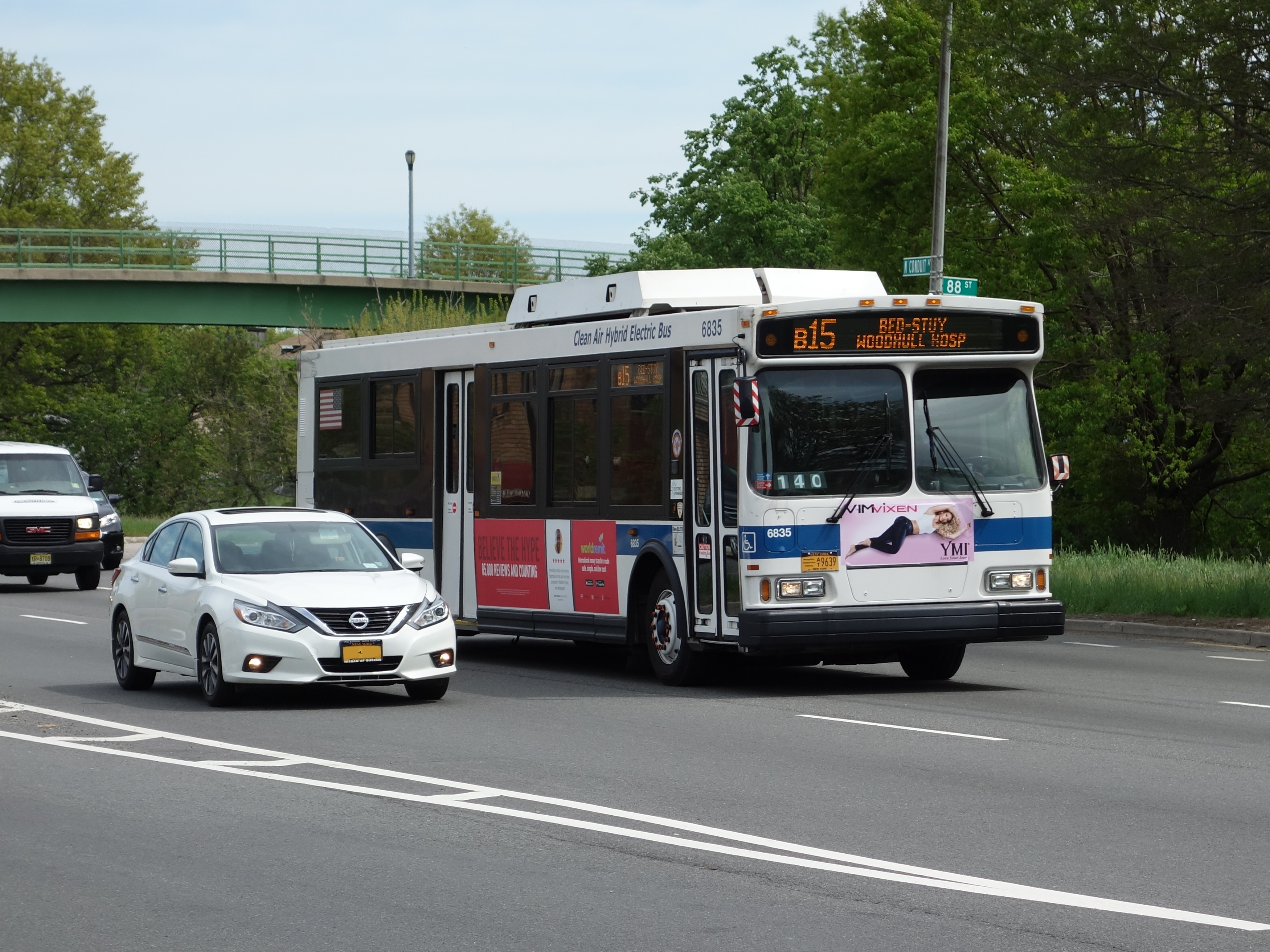 A Bedford–Stuyvesant-bound B15 bus traveling west on North Conduit Avenue west of 88th Street in Ozone Park, Queens. The bus uses Conduit Avenue to travel between JFK Airport and Brooklyn, making no stops in Queens except for one on the Brooklyn-Queens border.